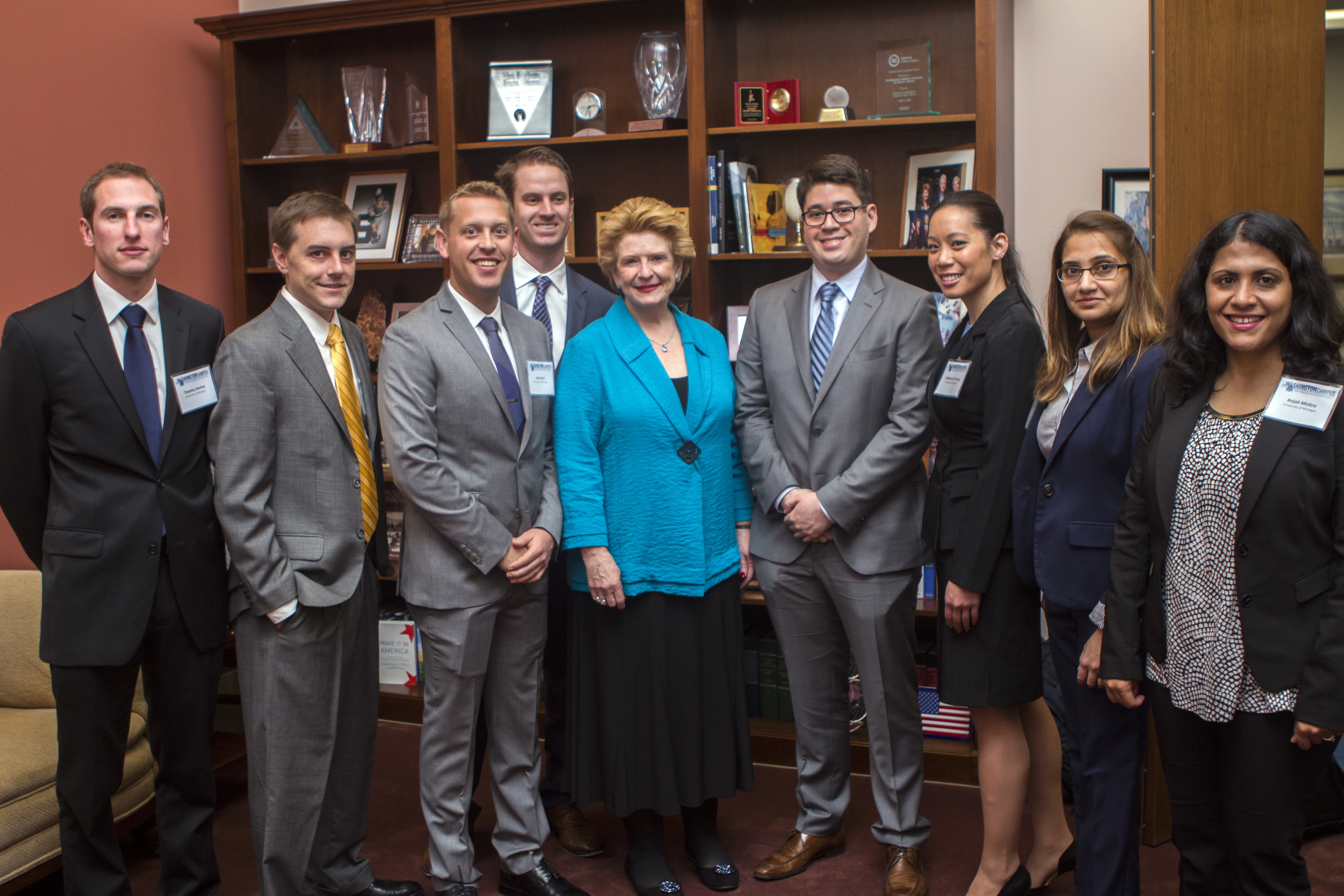 Photo provided by the office of U.S. Senator Debbie Stabenow.